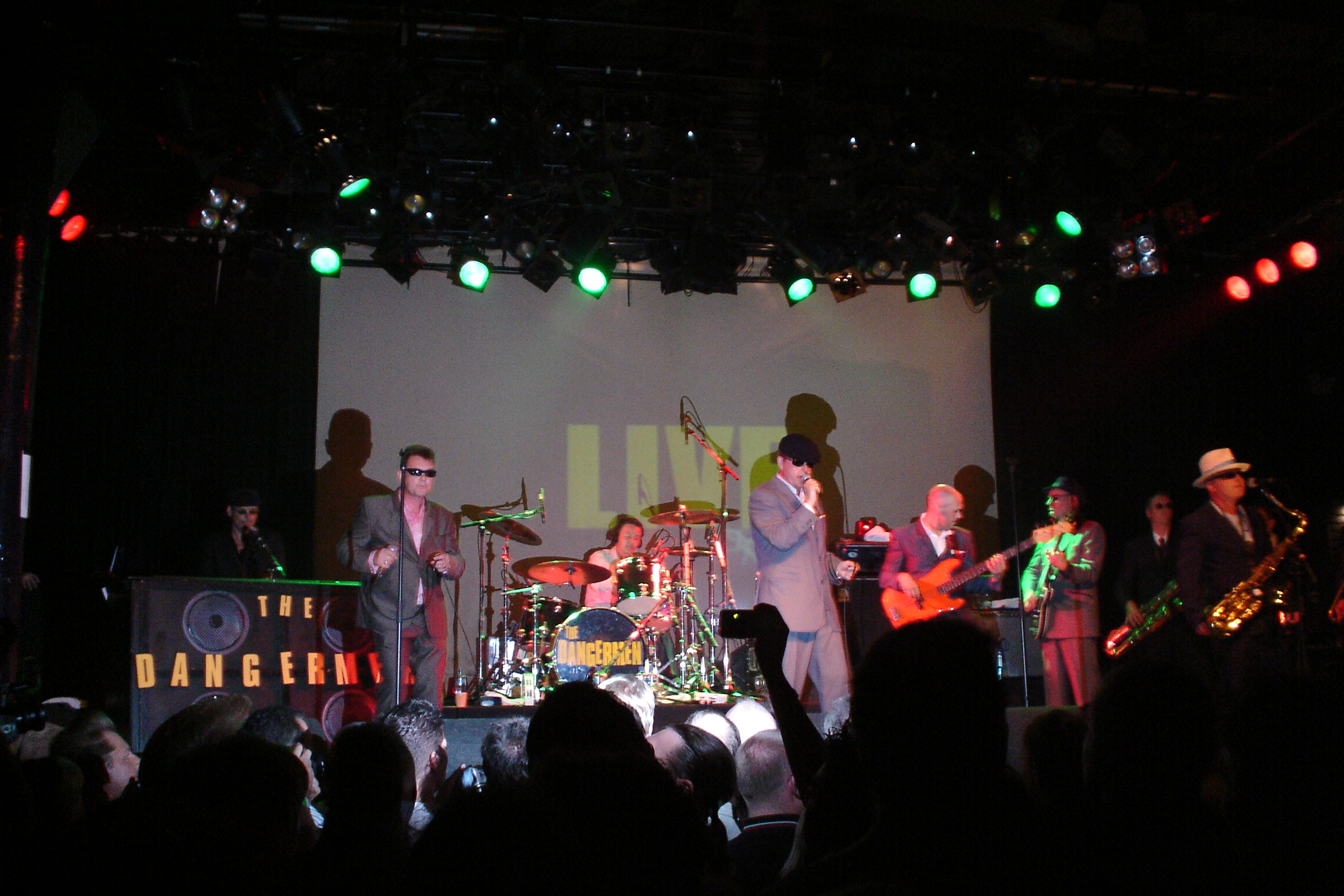 Madness performing live at the Melkweg venue, Amsterdam, 19-07-2005